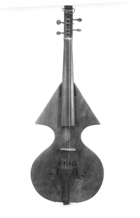 Philomel (musical instrument). Also it is another name of the nightingale.